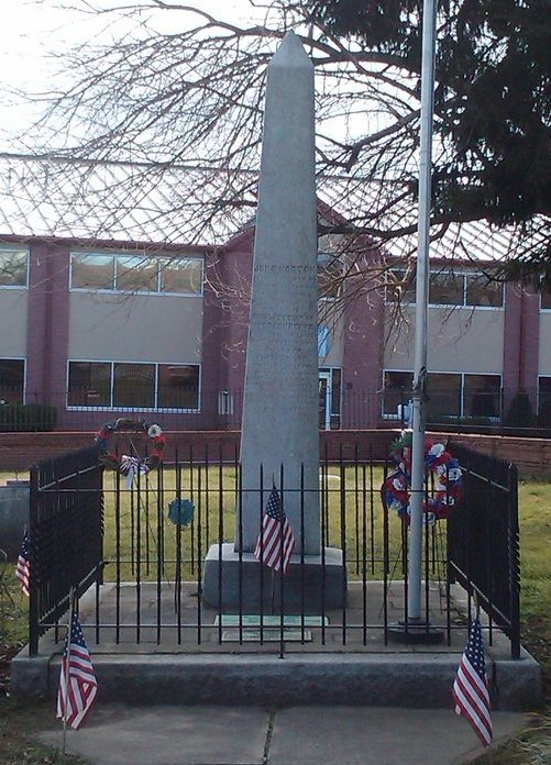 Grave of John Morton (1725 – April 1, 1777) signer of the Declaration of Independance. Born in Ridley, Pennsylvania, in 1725 to descendents of original Finnish immigrants to the Delaware Valley. Old Swedish Burial Ground in Chester, Pennsylvania. The obelisk was placed by his descendants in 1853.